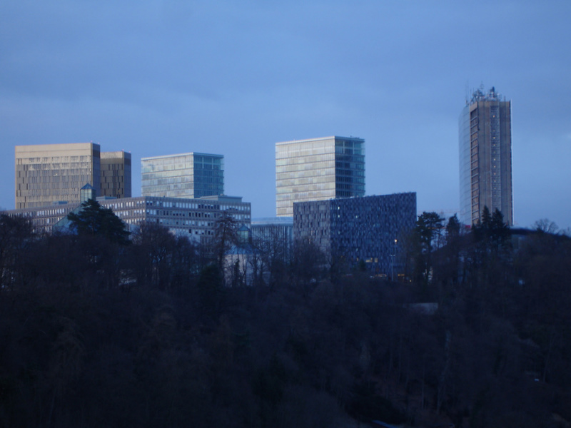 Luxembourg Skyline